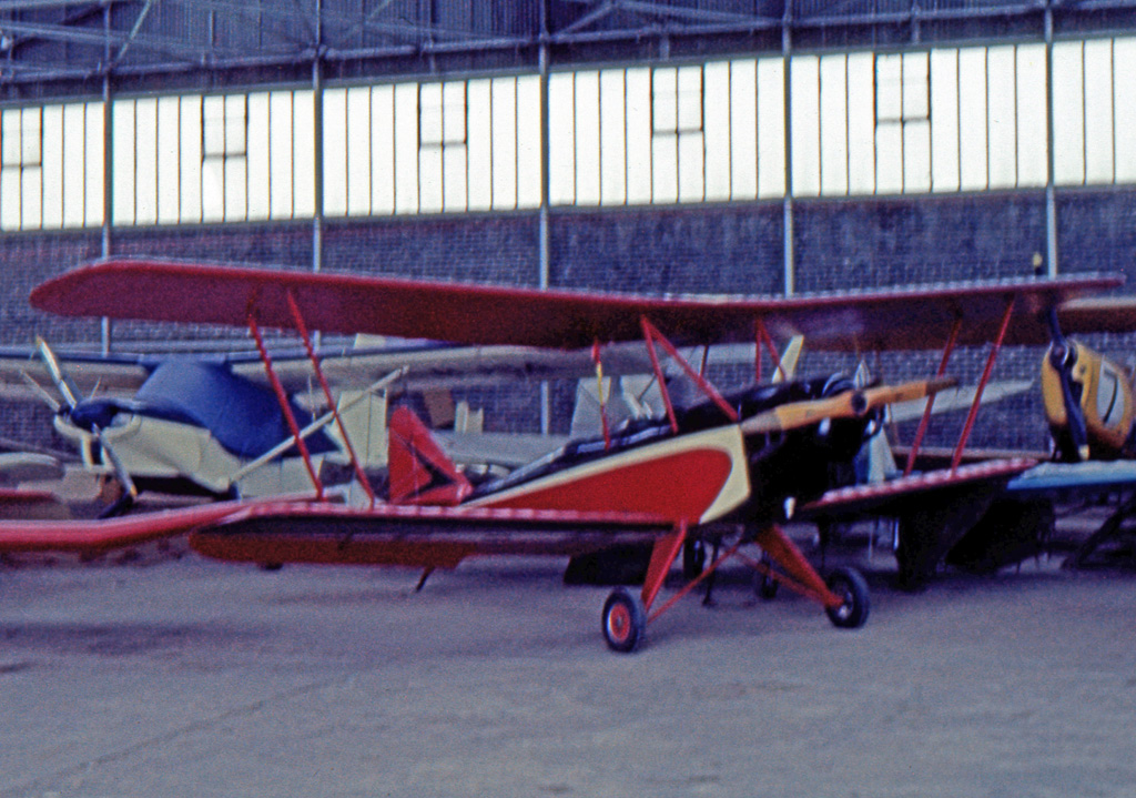 Leopoldoff L-7 Colibri, built postwar, at Guyancourt airfield near Paris in 1963.